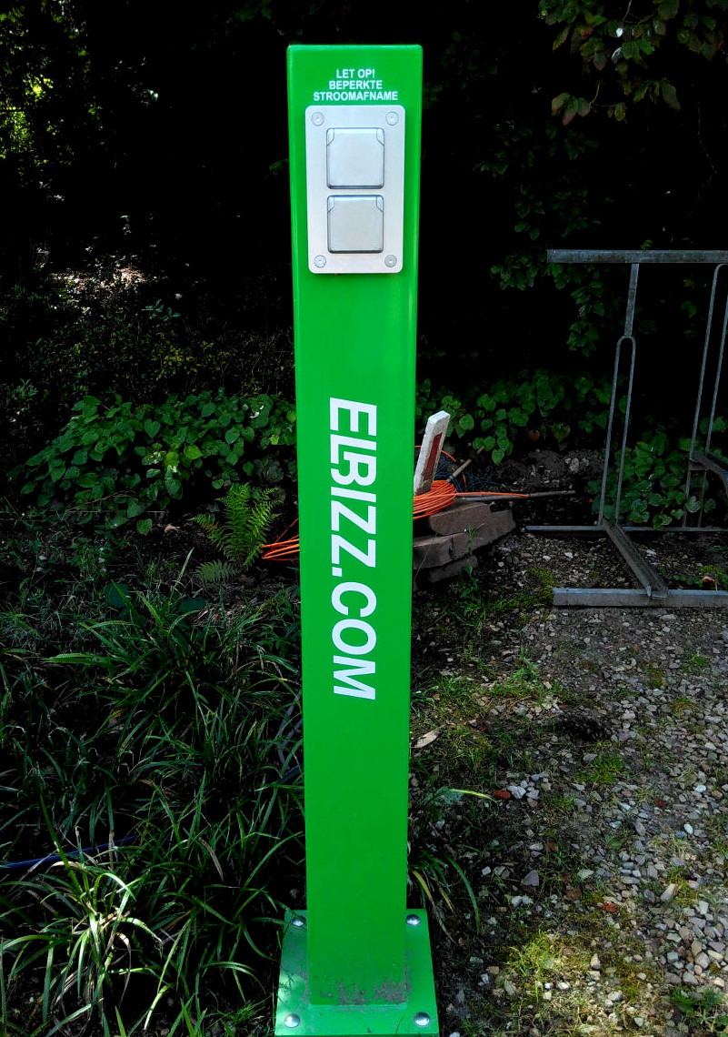 Chargingpoint for electric bicycles (Netherlands)